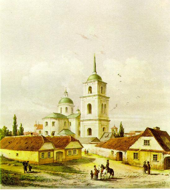 Tavern in Subačius street, Vilnius, Lithuania. 1865. Colorized lithograph.